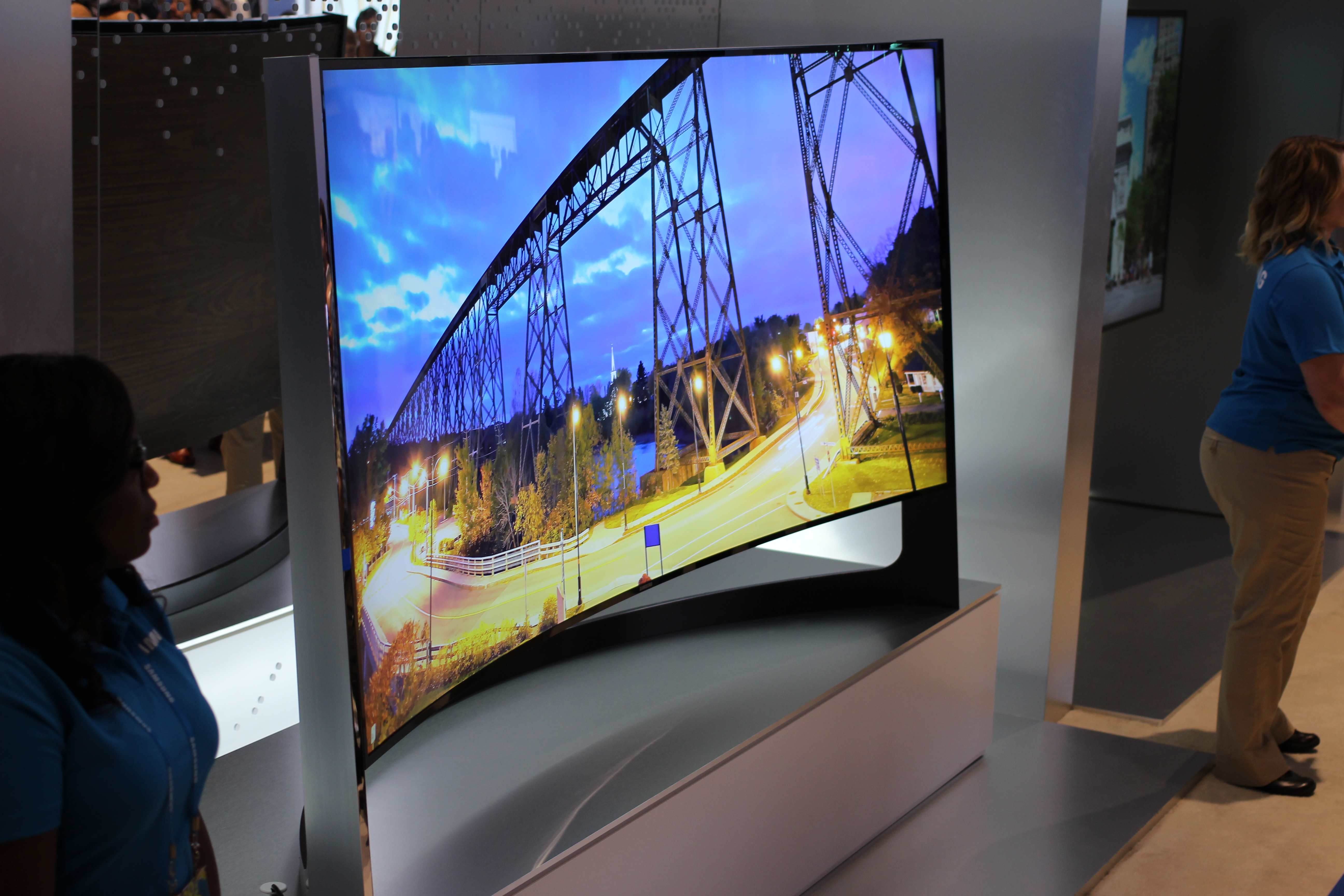 Samsung Panoramic Curved UHD TV 105""